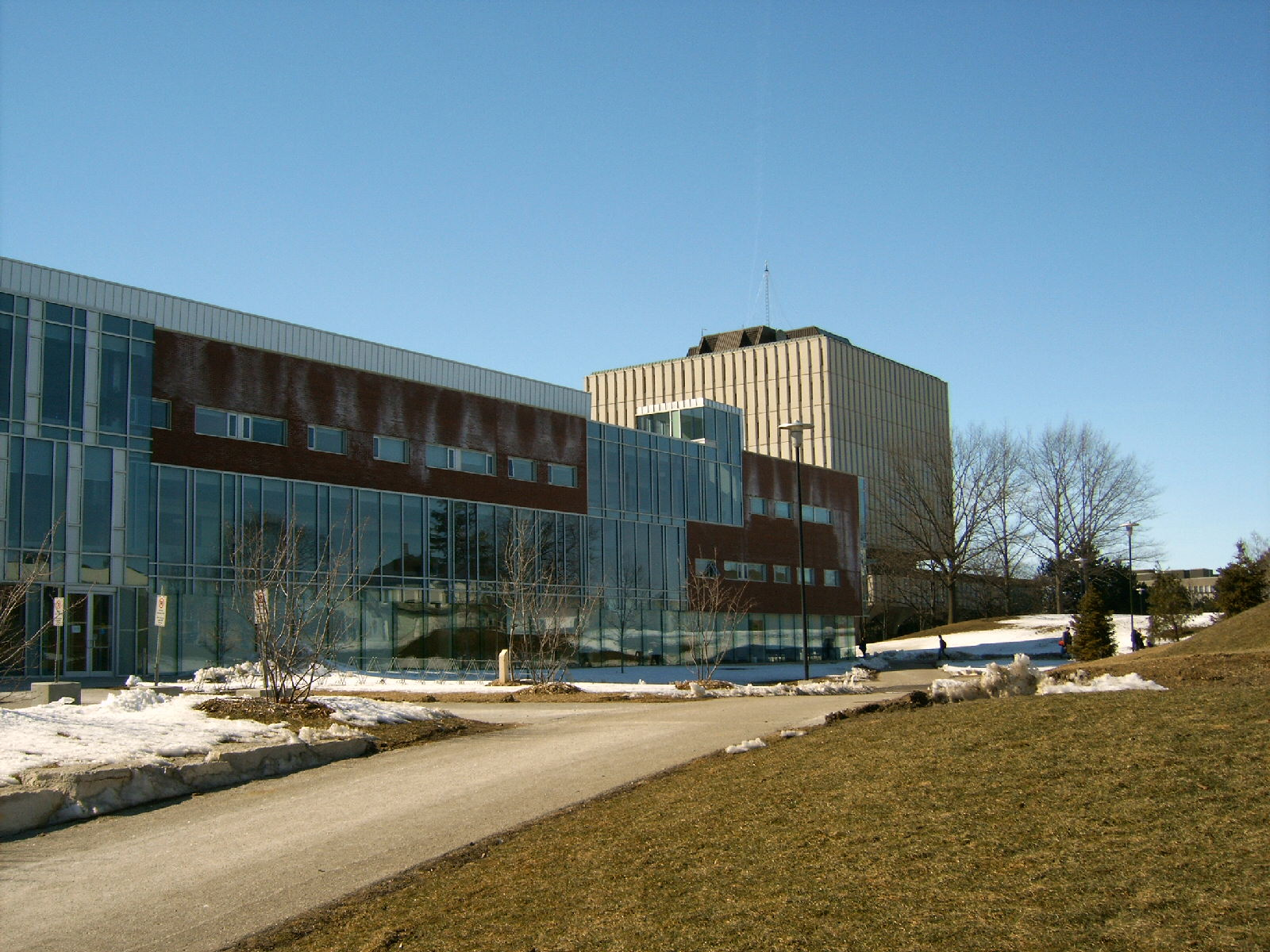 University of Waterloo in Waterloo, Ontario, Canada. The building in the foreground is the William M. Tatham Centre for Co-operative Education and Career Services. The white cube building behind is the Dana Porter Library Dana Porter Library William M. Tatham Centre for Co-operative Education & Career Action